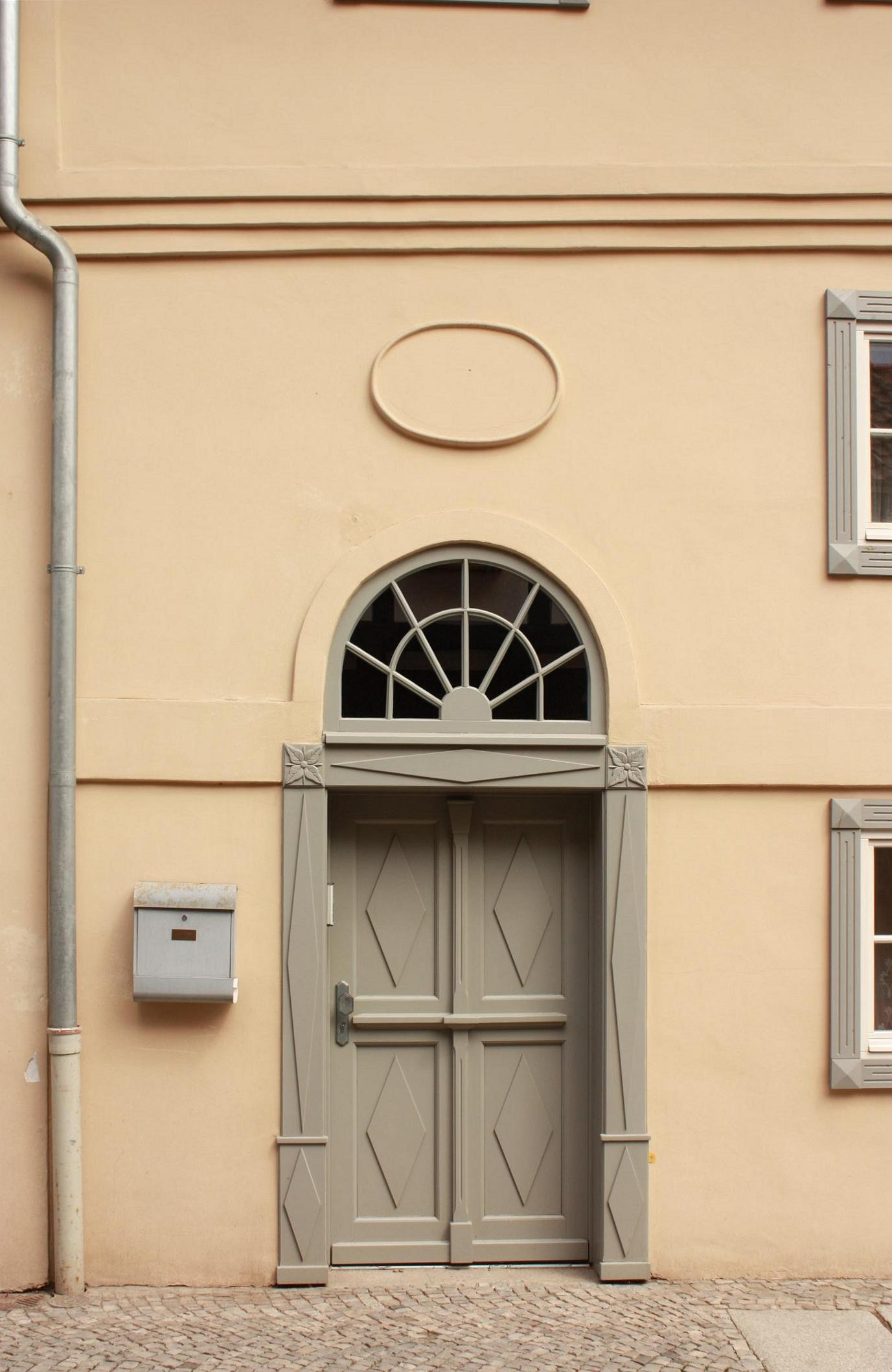 2=Building in Quedlinburg / Germany Altetopfstraße 17 in Quedlinburg